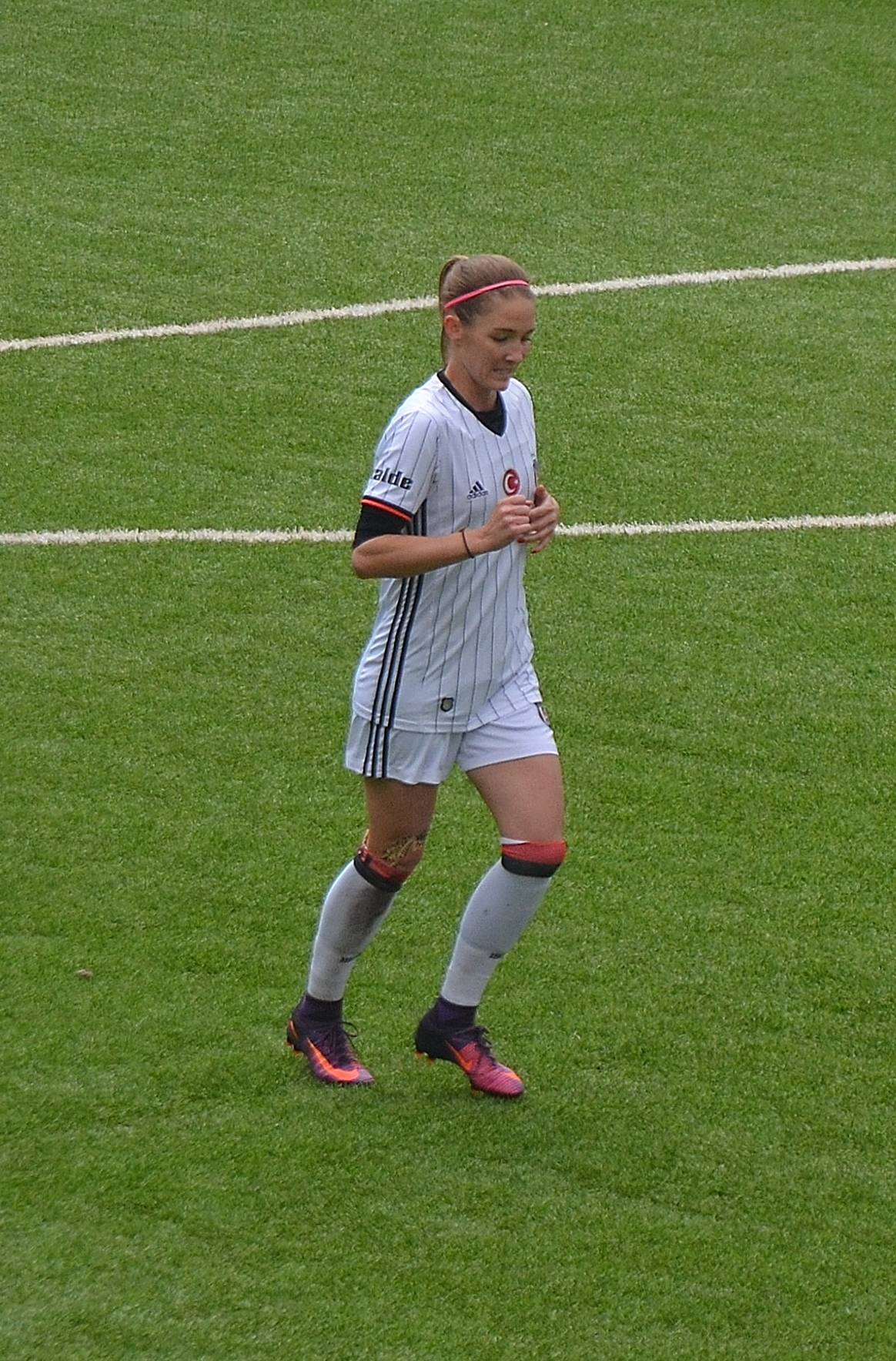 Jessica Lynne O'Rourke playing for Beşiktaş J.K. in the 2016-17 season's play-off home match against 1207 Antalya Döşemealtı Belediyespor.